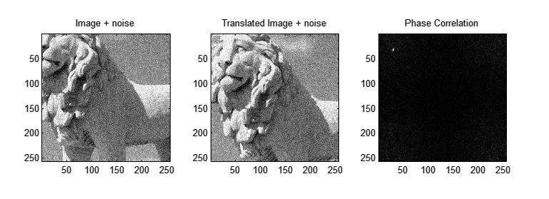 Example Image of the Phase Correlation technique --Fredrik Orderud 21:24, 11 Mar 2005 (UTC)